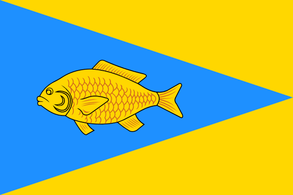 Flag of Ishim, Tyumen Region, Russia